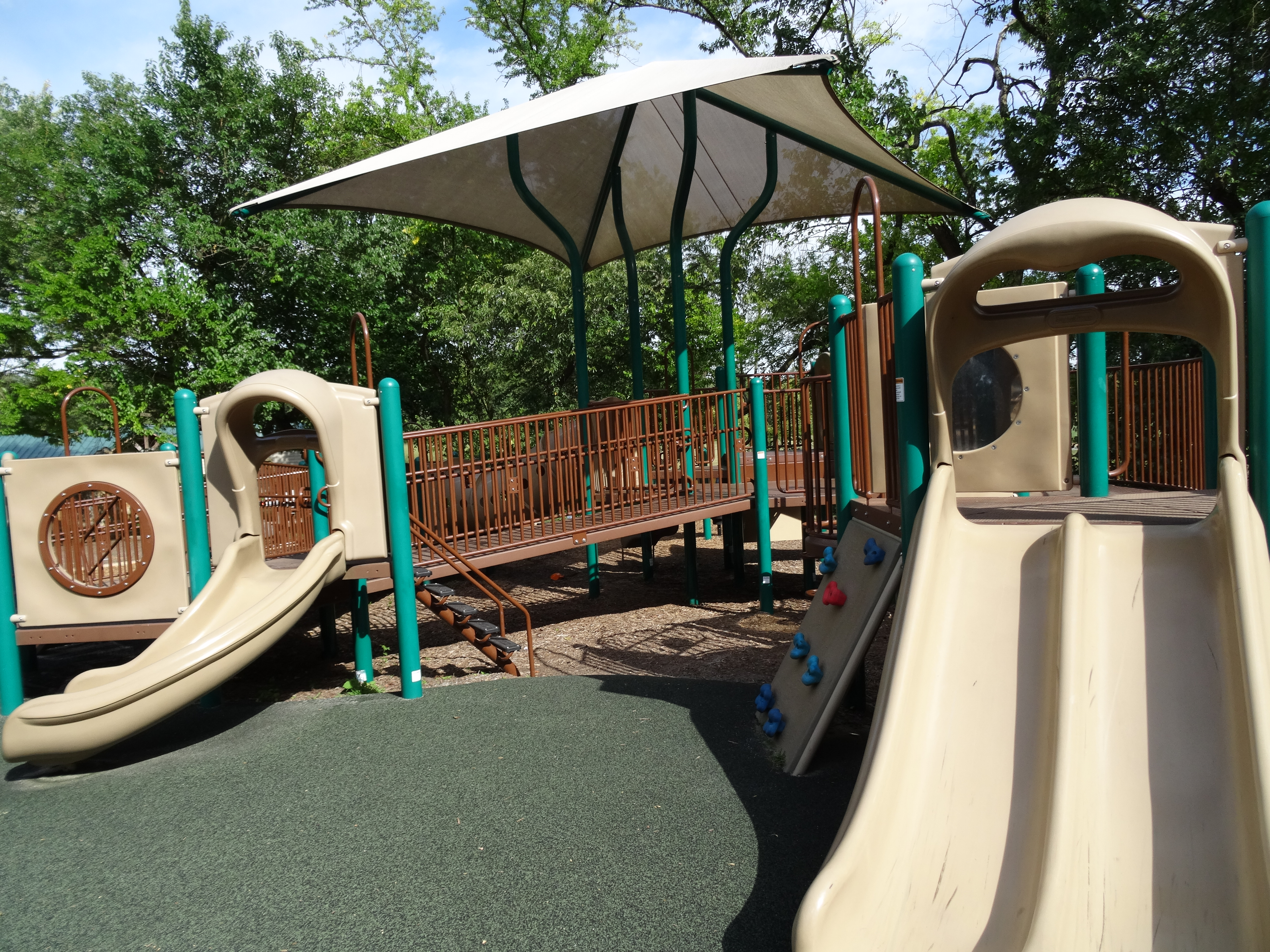 Can Do Playground in Alapocas Run State Park.